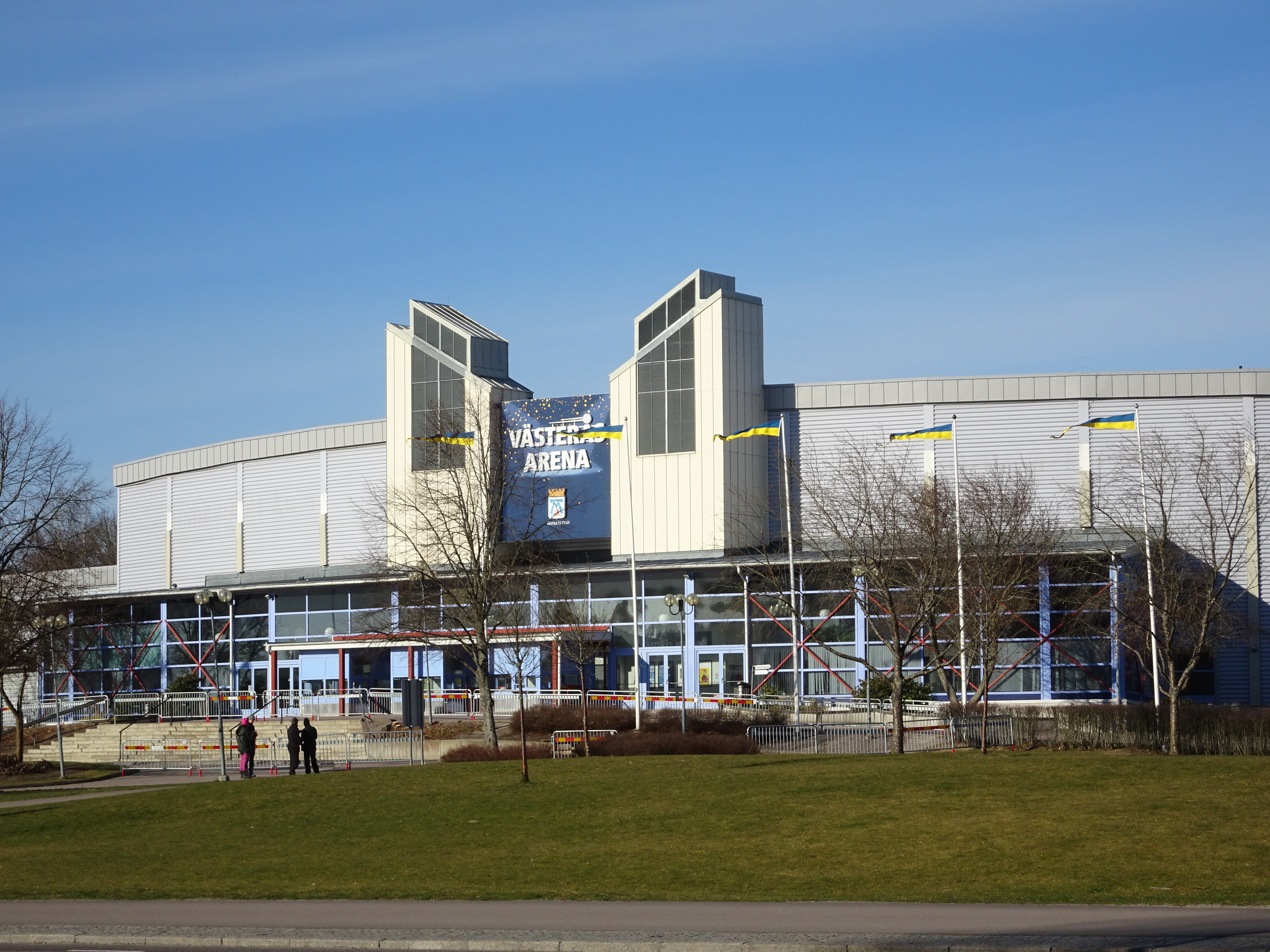 Västerås Arena (for events and in-door sports) in the Rocklunda sports area in Västerås, Sweden. The A-hall can hold a seated audience of 1 800. There is a sports floor of 1 500 m² on which 1 000 can be seated. It started 1990 as Västeråshallen, renamed to Bombardier Arena in 2008, and again in April 2020 to Västerås Arena.